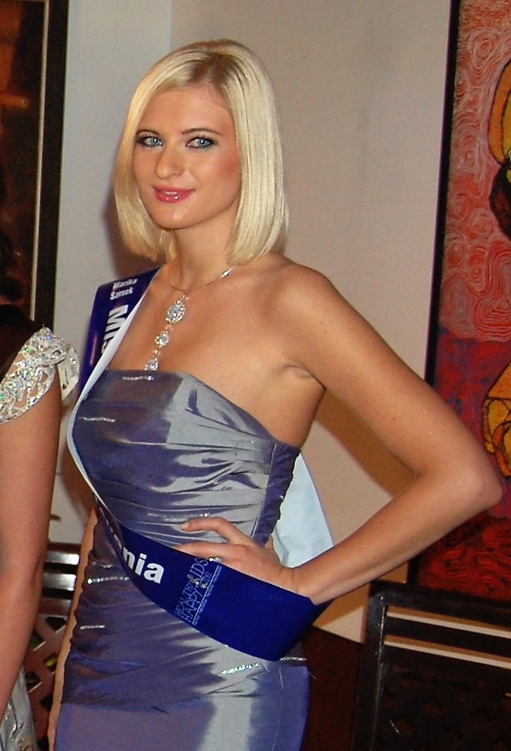 Marika Savsek (Miss Universe Slovenia).